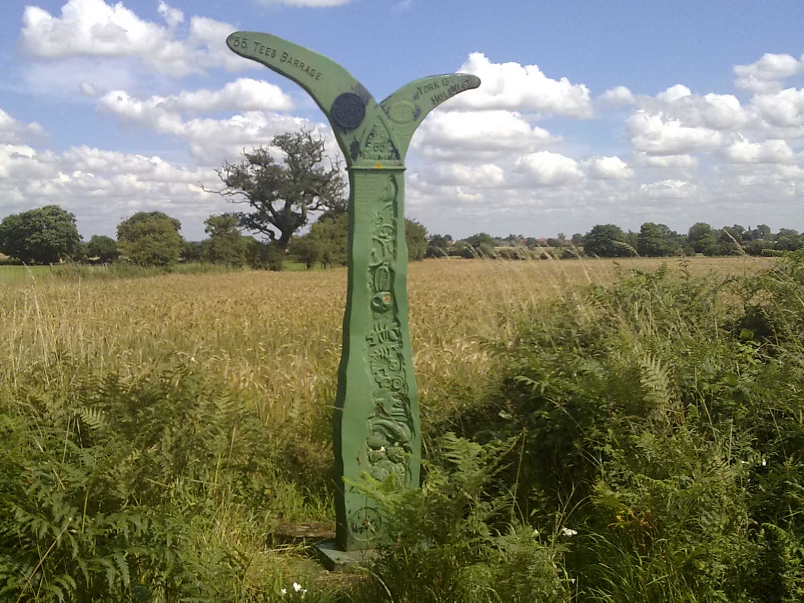 UK National Cycle Network Milepost ref MP114 just west of Youlton